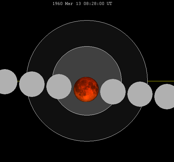 March 1960 lunar eclipse chart of moon's path through the earth's shadow. thumb